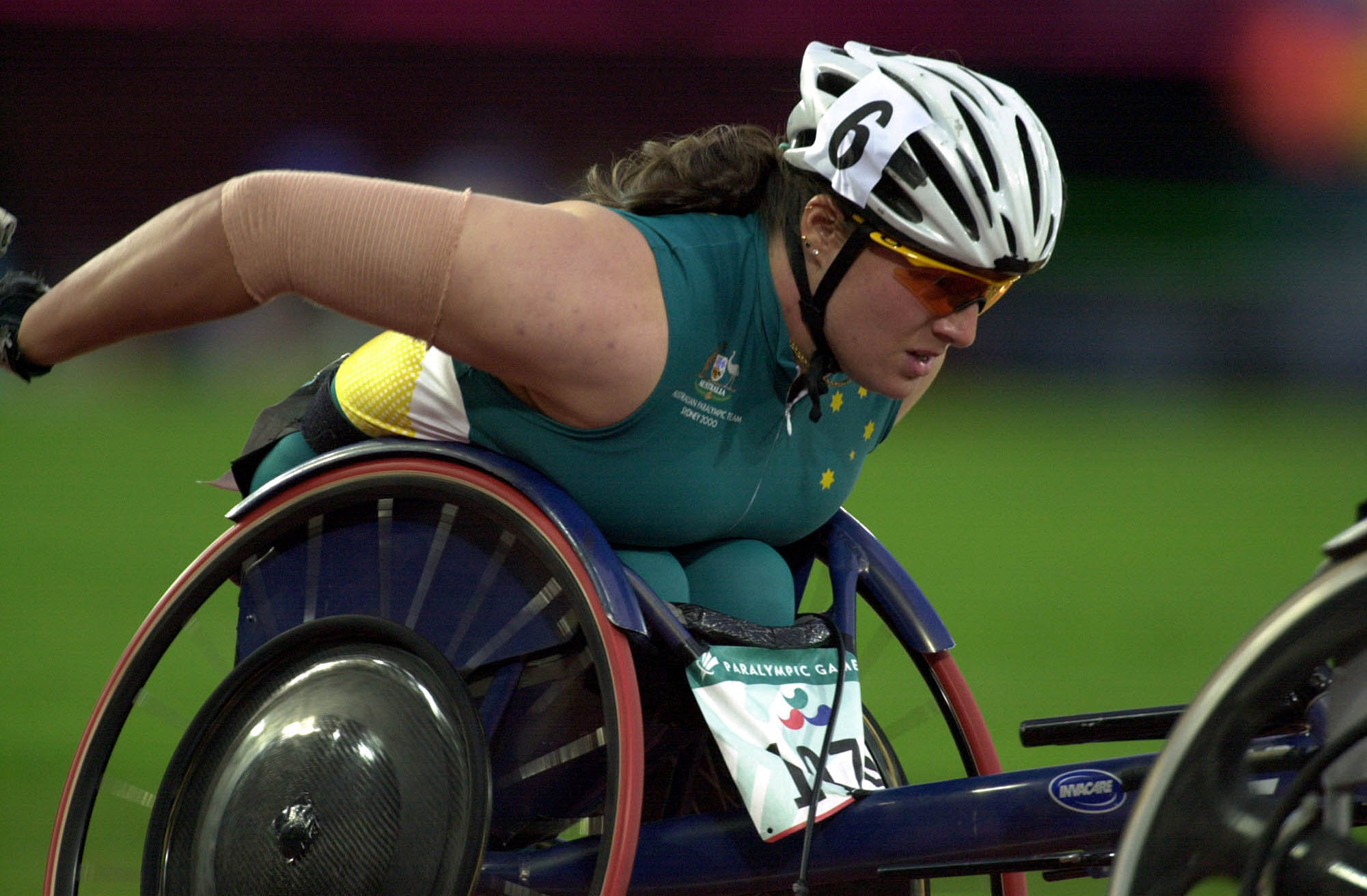 Action shot (close up) of Australian wheelchair racing athlete Louise Sauvage during the 800 m T54 final at the 2000 Sydney Paralympic Games, Day 04. Sauvage won silver in this event.